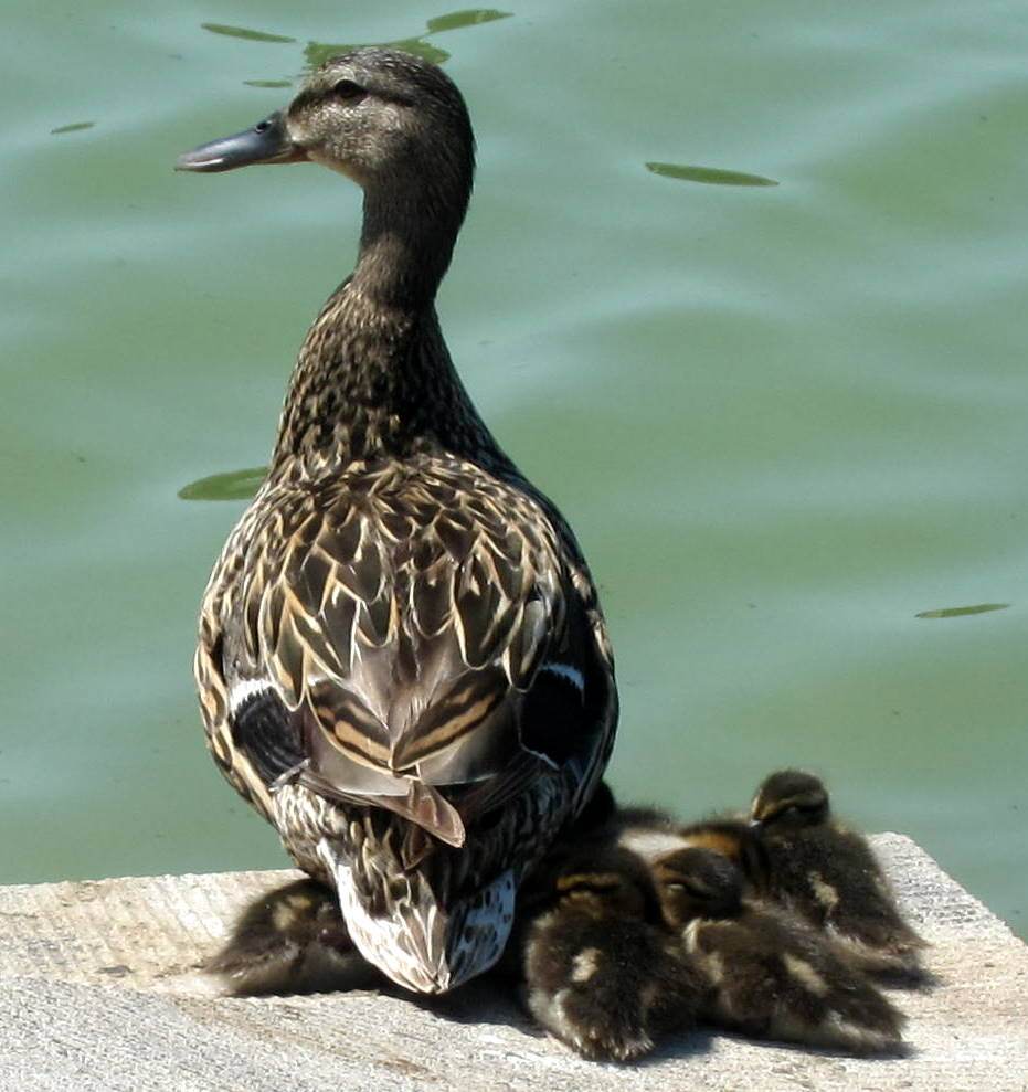 A Mallard and her ducklings in front of the Ulysses S. Grant Memorial in Washington, D.C.